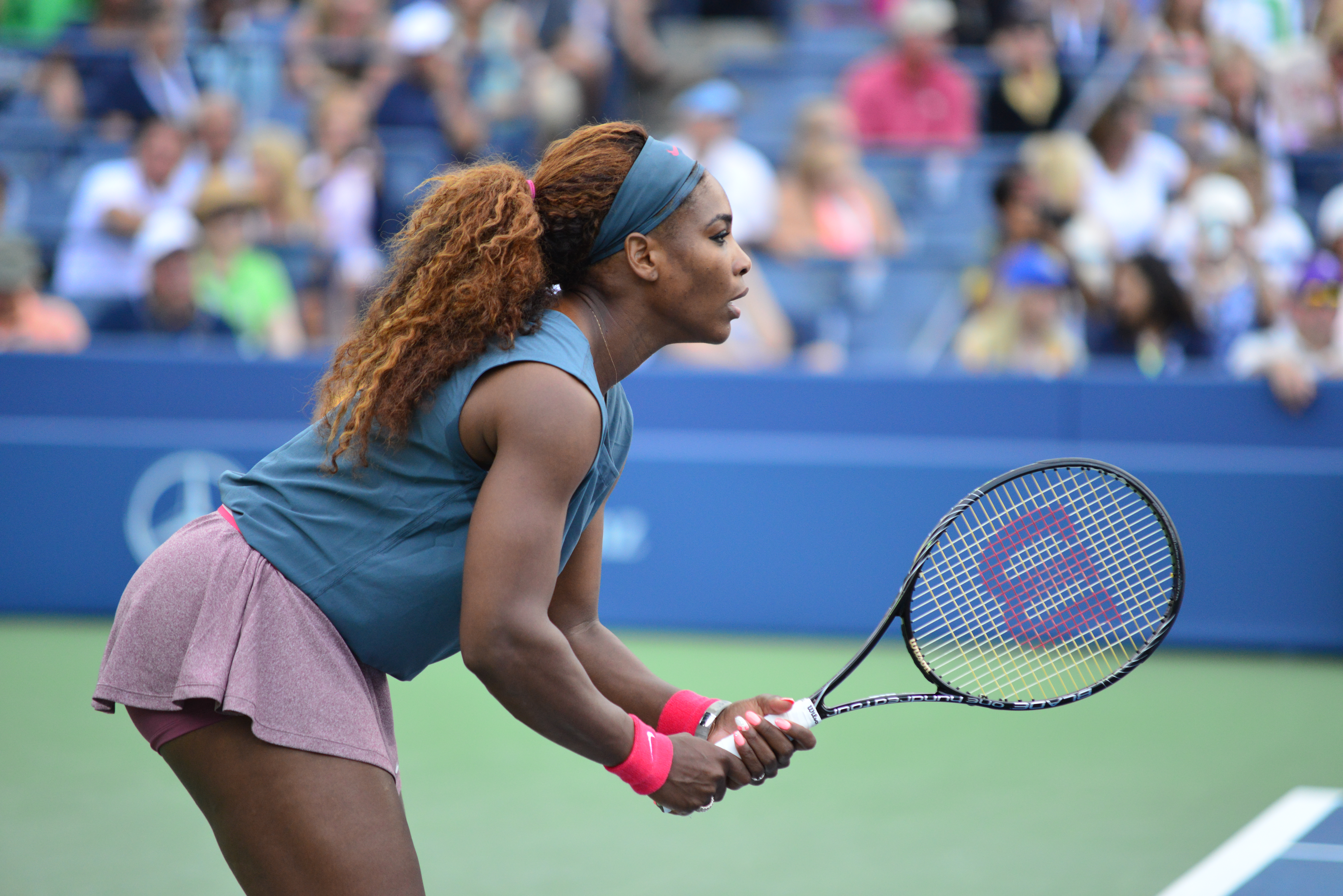 1st round doubles action from the Women's draw at the 2013 US Open. Serena and Venus Williams defeated Silvia Soler-Espinosa and Carla Suarez Navarro; 6-7(5), 6-0, 6-3